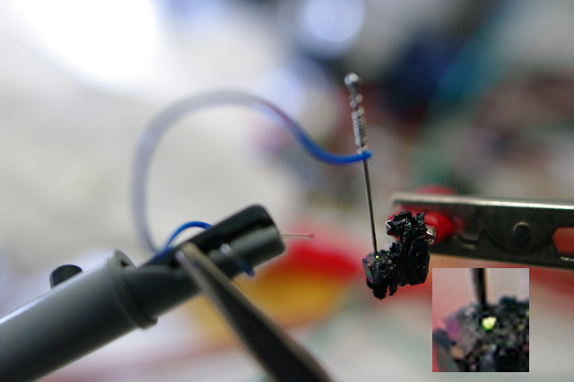 This image shows a replication of H.J. Round's experiments in which he discovered the effect underlying the light emitting diode (LED). A negatively charged needle contacts a positively charged crystal of silicon carbide or carborundum. At a voltage of 9 V and a current of 30 mA a green glow can be observed at the contact point between needle and crystal. A more detailed version of the setup can be found at